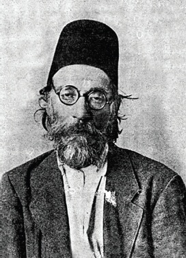 A BW portrait of Jamil Sidqi al-Zahawi